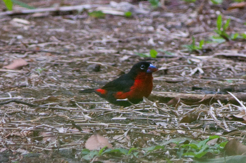 Journey Douala to Buea